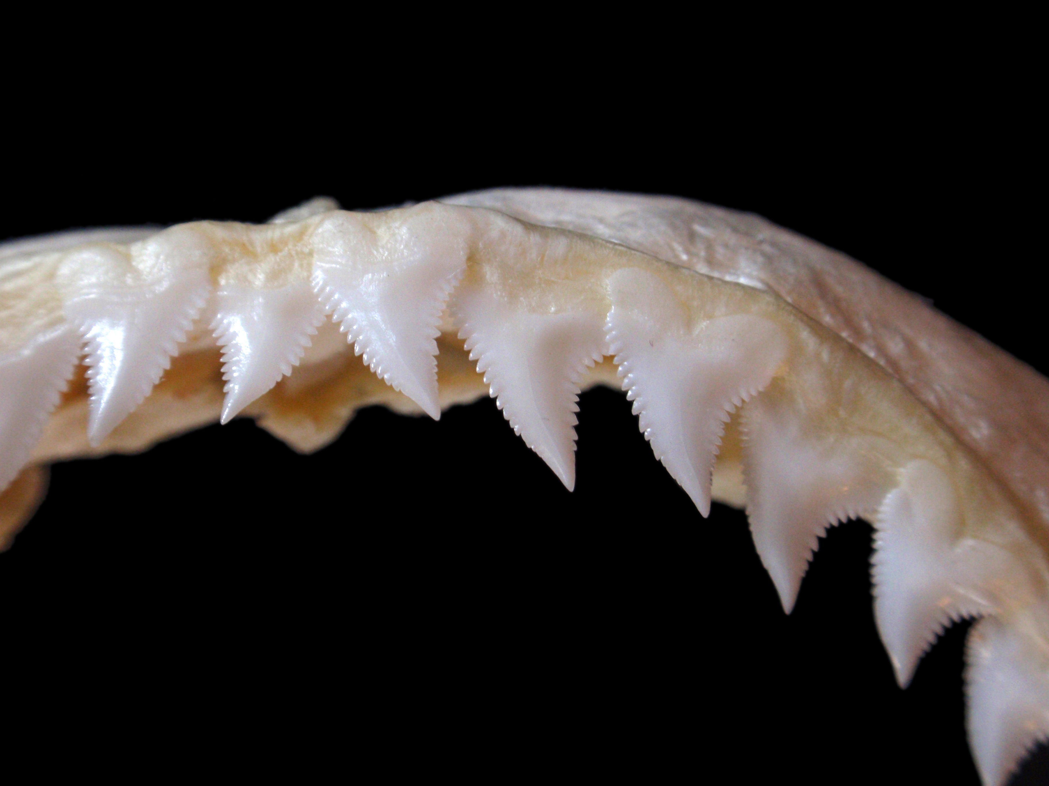 Prionace glauca upper anterior-lateral teeth.